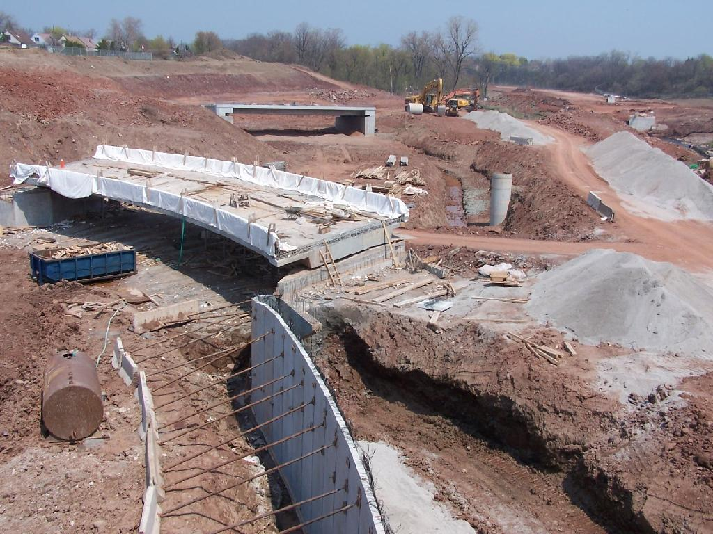 A photo of the Red Hill Creek expressway construction in May, 2005. I took this photo myself in may, 2005, and hereby release it to the wilds of the internet. :) --guru 19:13, 25 April 2006 (UTC)